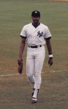 Dave Winfield in New York Yankees Spring Training, 1983. Philatio (talk) 03:33, 5 May 2008 (UTC) 03:33, 5 May 2008 . . Phil5329 . . 224×356 (12 KB)